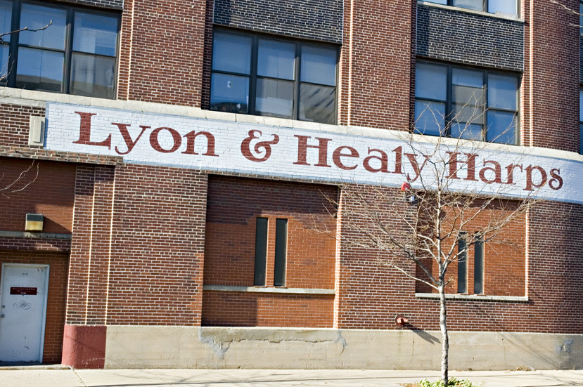 Harp manufacturer to the world. The Chi Tribune did a story on the company, excerpted here Harpmaker_for_world